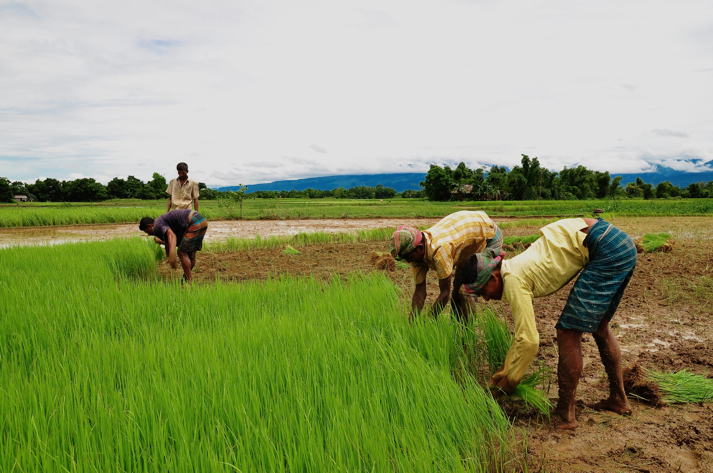 Agriculture in Bangladesh